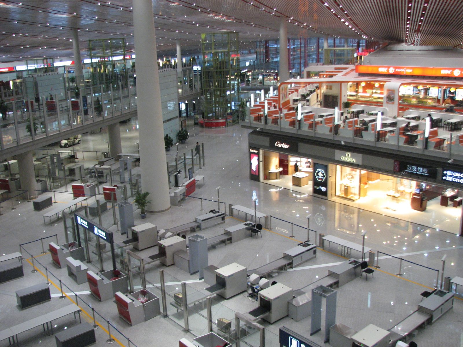 Lobby of Terminal 3 of Beijing Capital International Airport